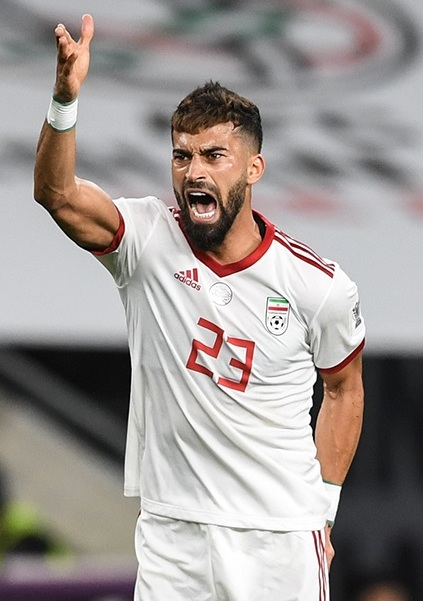 Iran-Japan, 2019 AFC Asian Cup Semi-final